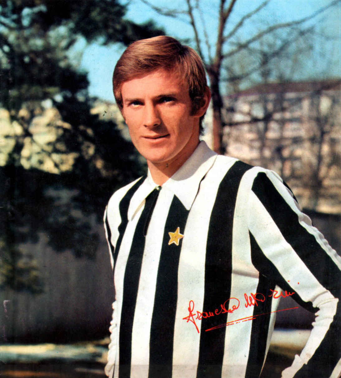 Italian footballer Francesco Morini with Juventus F.C. in the 2nd half of the 1969–70 season.